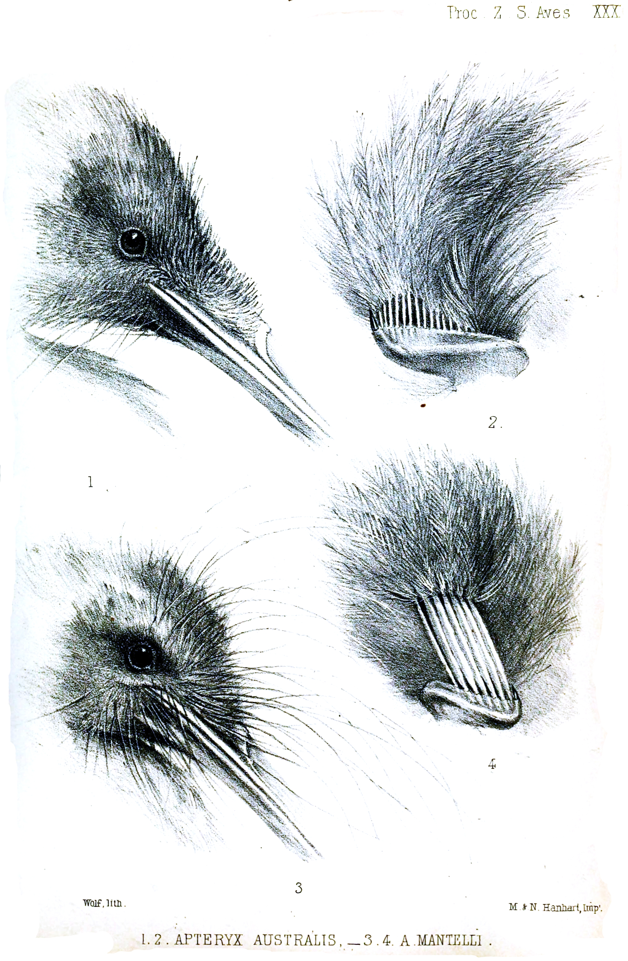 Apteryx australis, A. mantelli